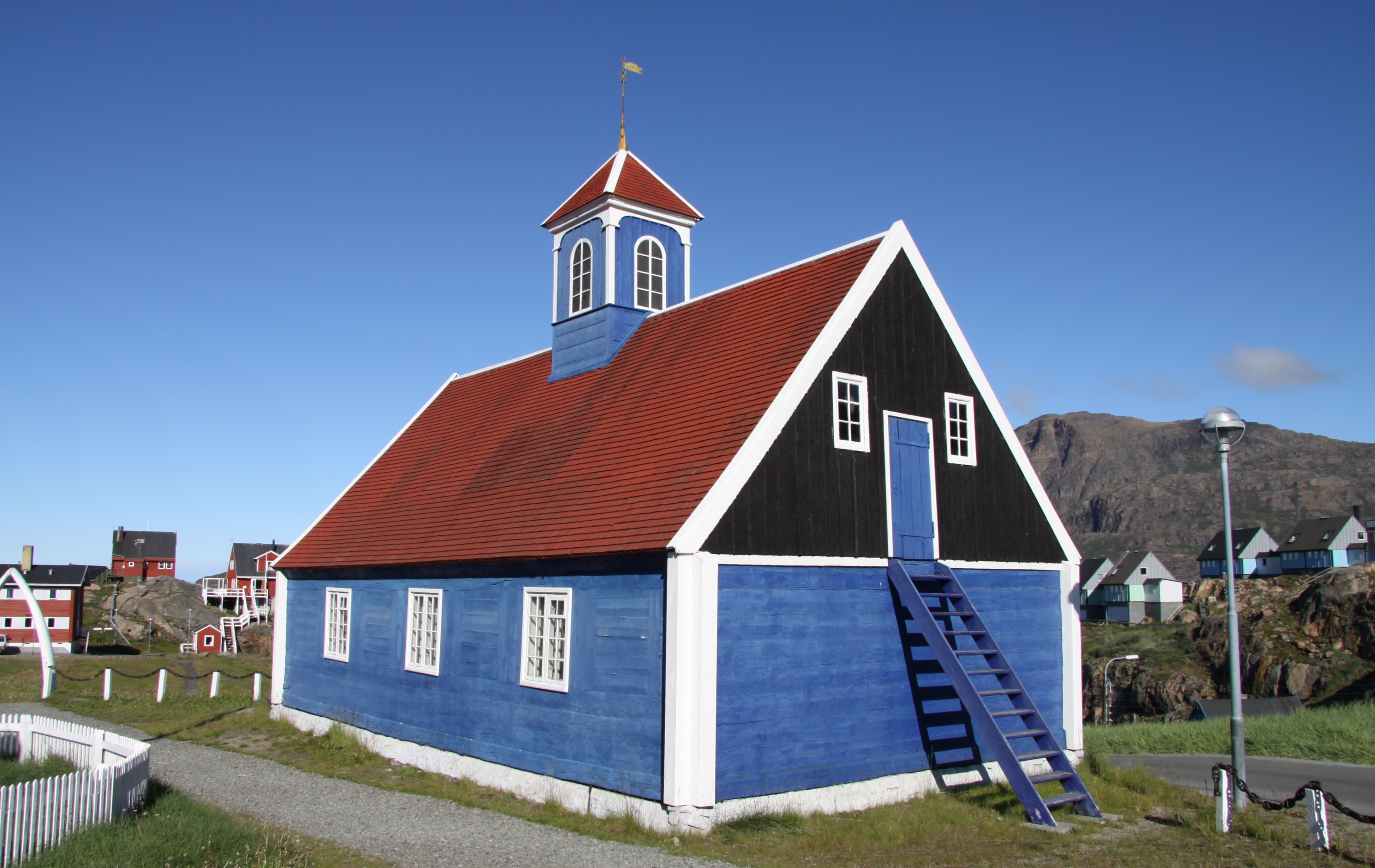 Old church in Sisimiut, Greenland